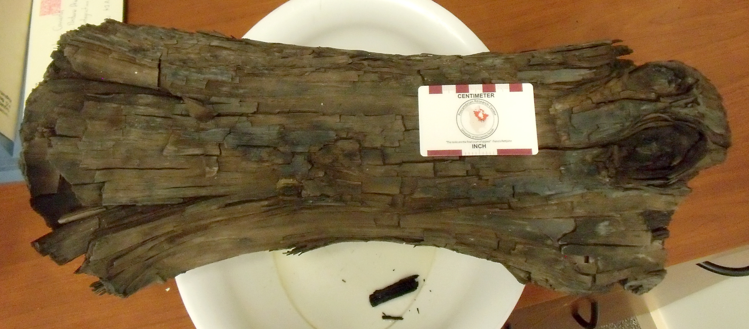 The Arctic had a California climate! for 60 million years! from 100 Mya tropical turtles thru to 40 Mya fossil forests. Amazingly, the wood's cellular structure is still intact after ~53 million years of preservation without fossilization inside a kimberlite pipe north of the current treeline. This mummified sample is a gift to the Hamlet of Kugluktuk from BHP Billiton. The specimen was being moved from one display case to another, allowing me the opportunity to photograph it. The NWT diamond mine site is geotagged.